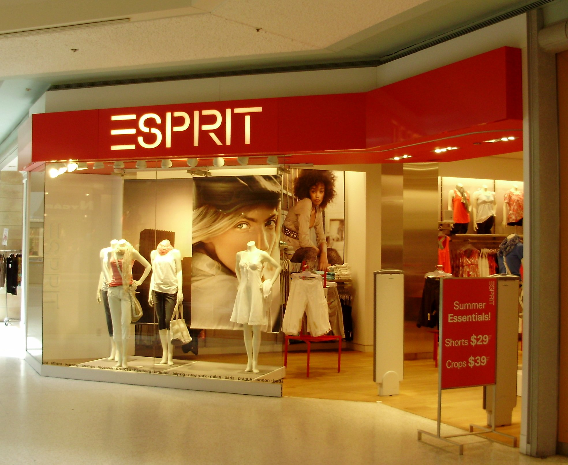 An Esprit store in the Scarborough Town Centre in Scarborough, Canada.